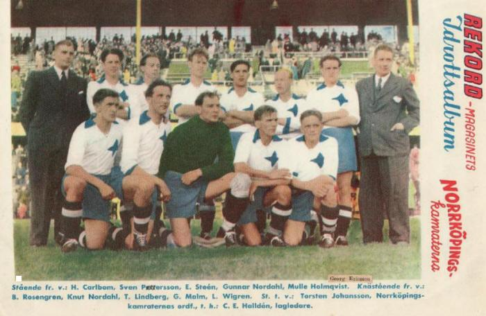 IFK Norrköping 1944.